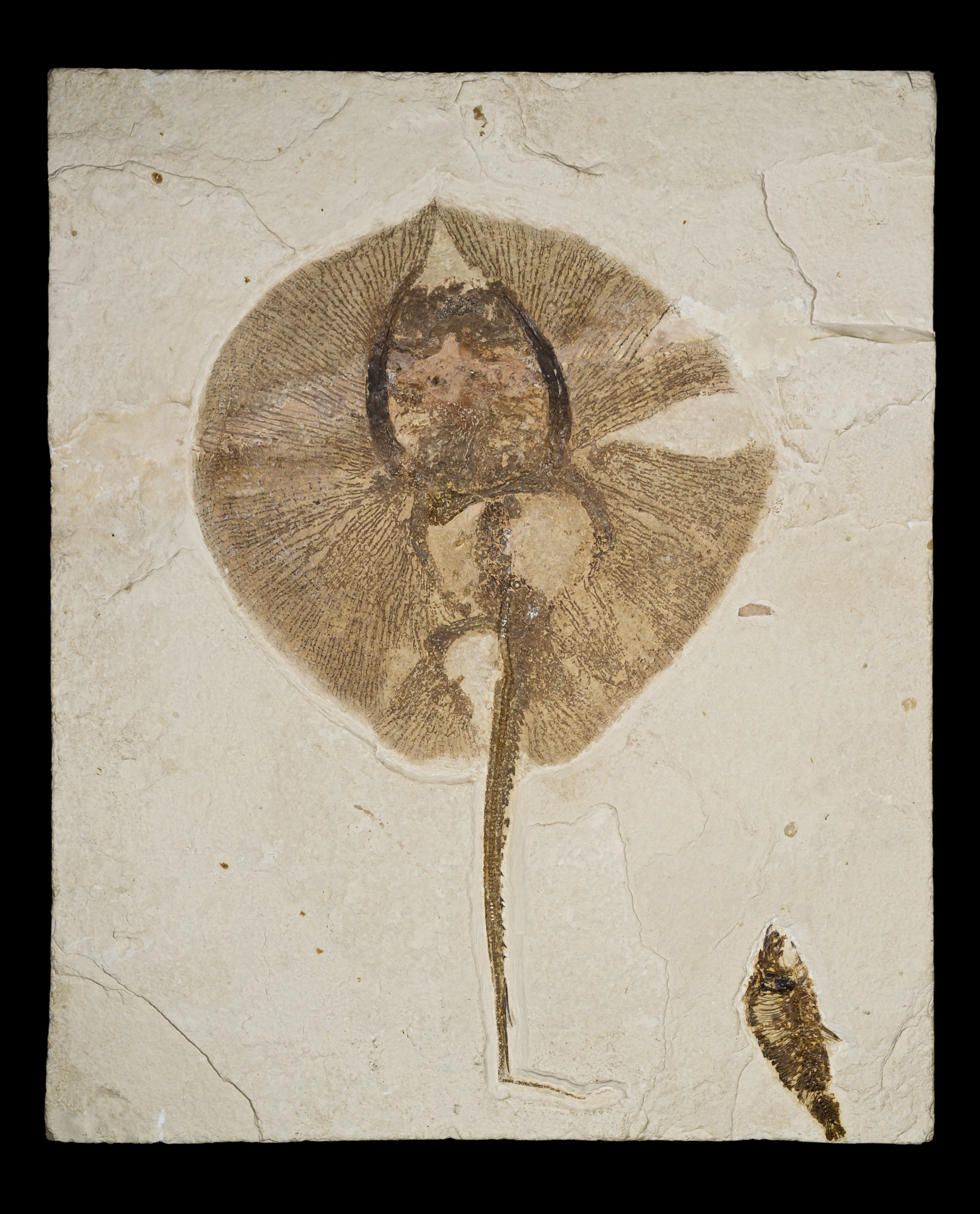 Heliobatis radians Stage : Eocene from 55,8 ± 0,2 Ma to 33,9 ± 0,1 Ma (million years ago) Locality: Fossil-Lake, Kemmerer, Wyoming USA Size : : 39.5 x 33.5 x 3 cm